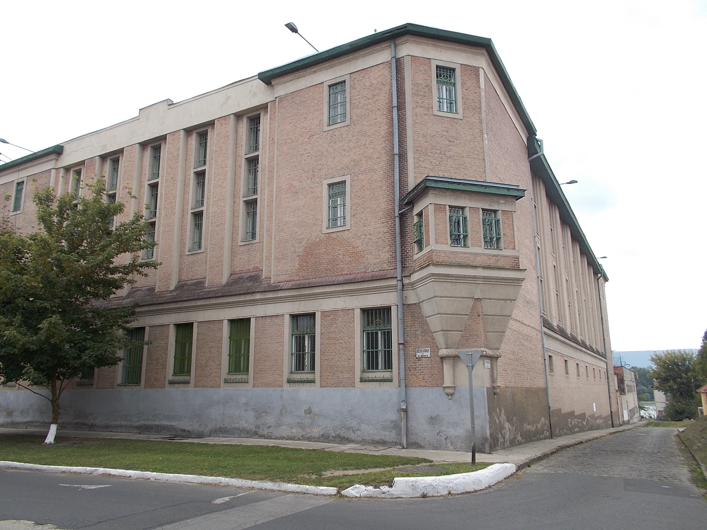 The building of the Prison was built for the convict of the noble youth. It was named "Theresianum" for the honour of the queen. From 1808 the Academy of Ludovika operated here, while it has been a prison since 1855. The neo-Gothic, richly-painted prison chapel can be found in the court. (vac.hu) - 64-66 Köztársaság Road, Vác, Pest County, Hungary This is a photo of a monument in Hungary, Identifier: 11280